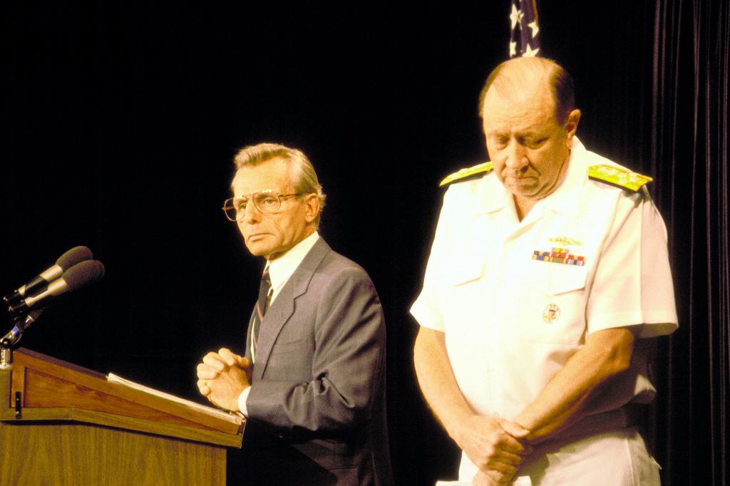 Frank C. Carlucci, US secretary of defense, answers questions from the press regarding the downing of Iran Air Flight 655 as Adm. William J. Crowe Jr., chairman of the joint chiefs of staff, briefing at the Pentagon. The aircraft was struck by missiles launched from the guided missile cruiser USS VINCENNES (CG-49) on July 3, 1988.